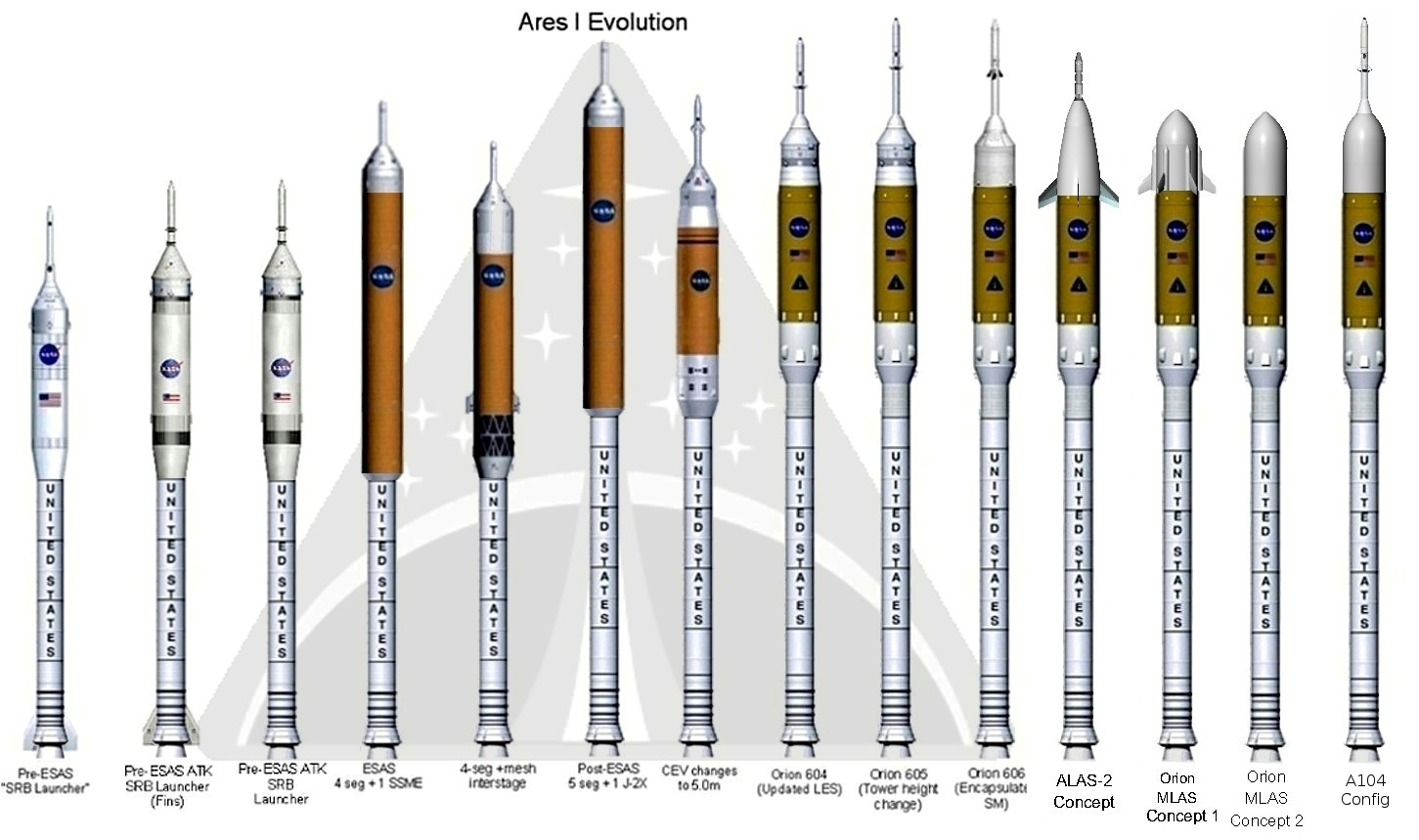 Evolution of the Ares I design from Pre-ESAS era to current projections.